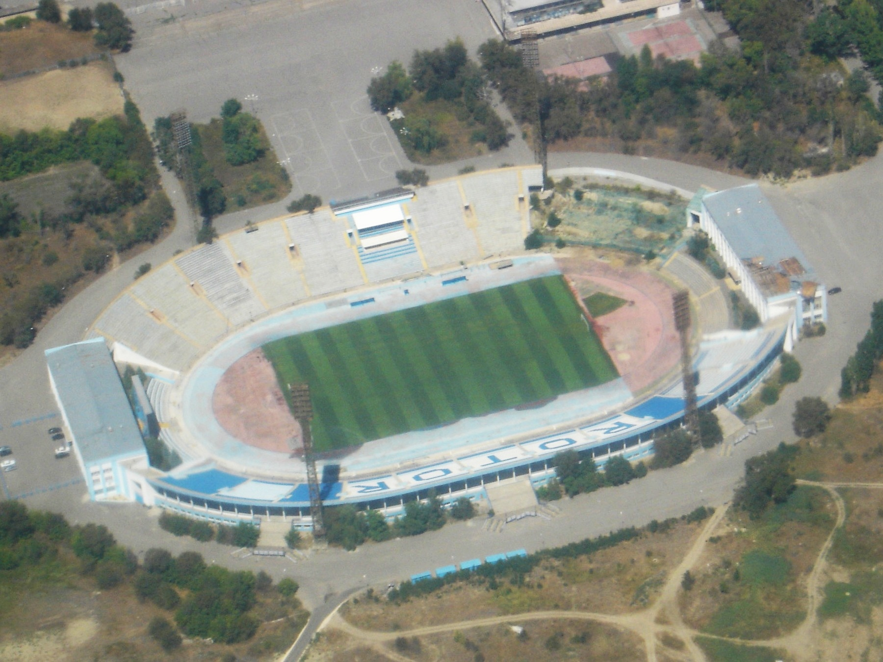 The Central Stadium of Volgograd photographed from air.